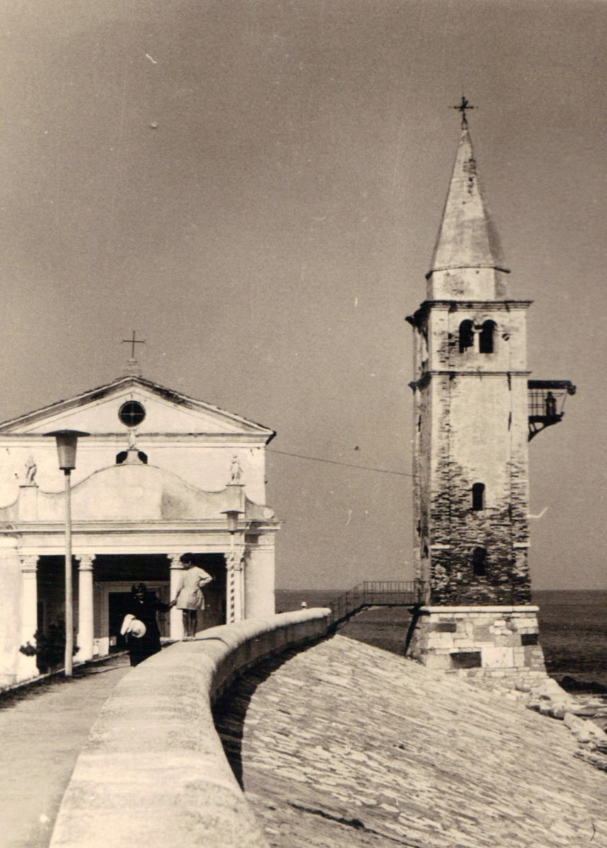 Madonna dell'Angelo, Caorle in 1958